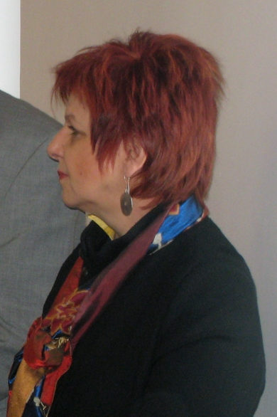 Majda Širca